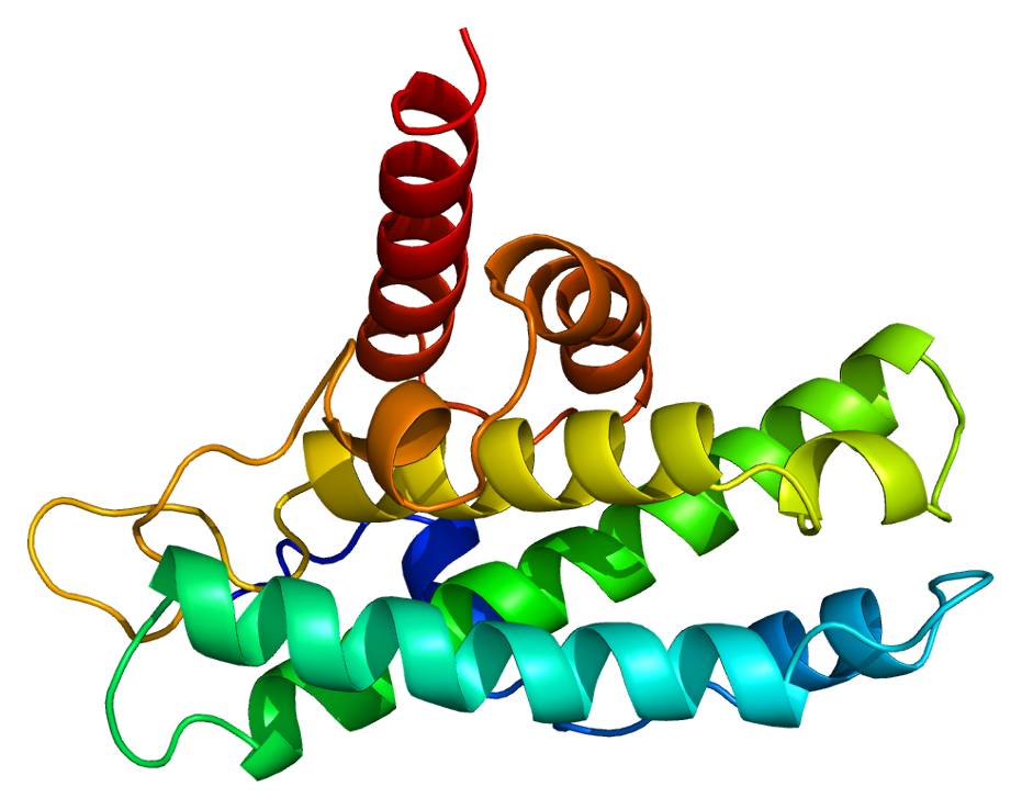 Structure of the RB1 protein. Based on PyMOL rendering of PDB 1ad6.